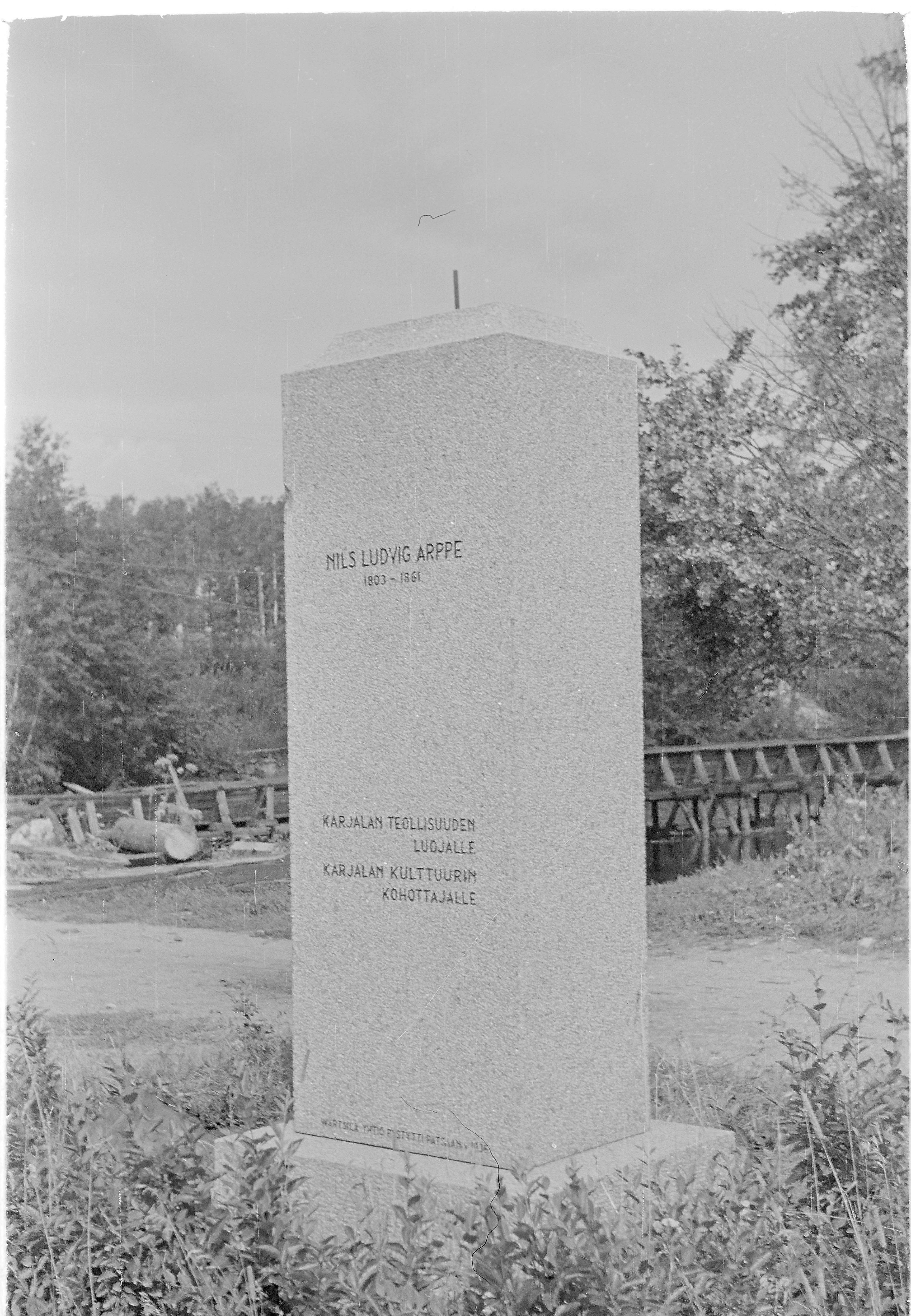 Industrialist Nils Gustav Arppe (18+3-1861) - memorial established at the end of 1930s to Värtsilä, located currently in Russian Karelia.